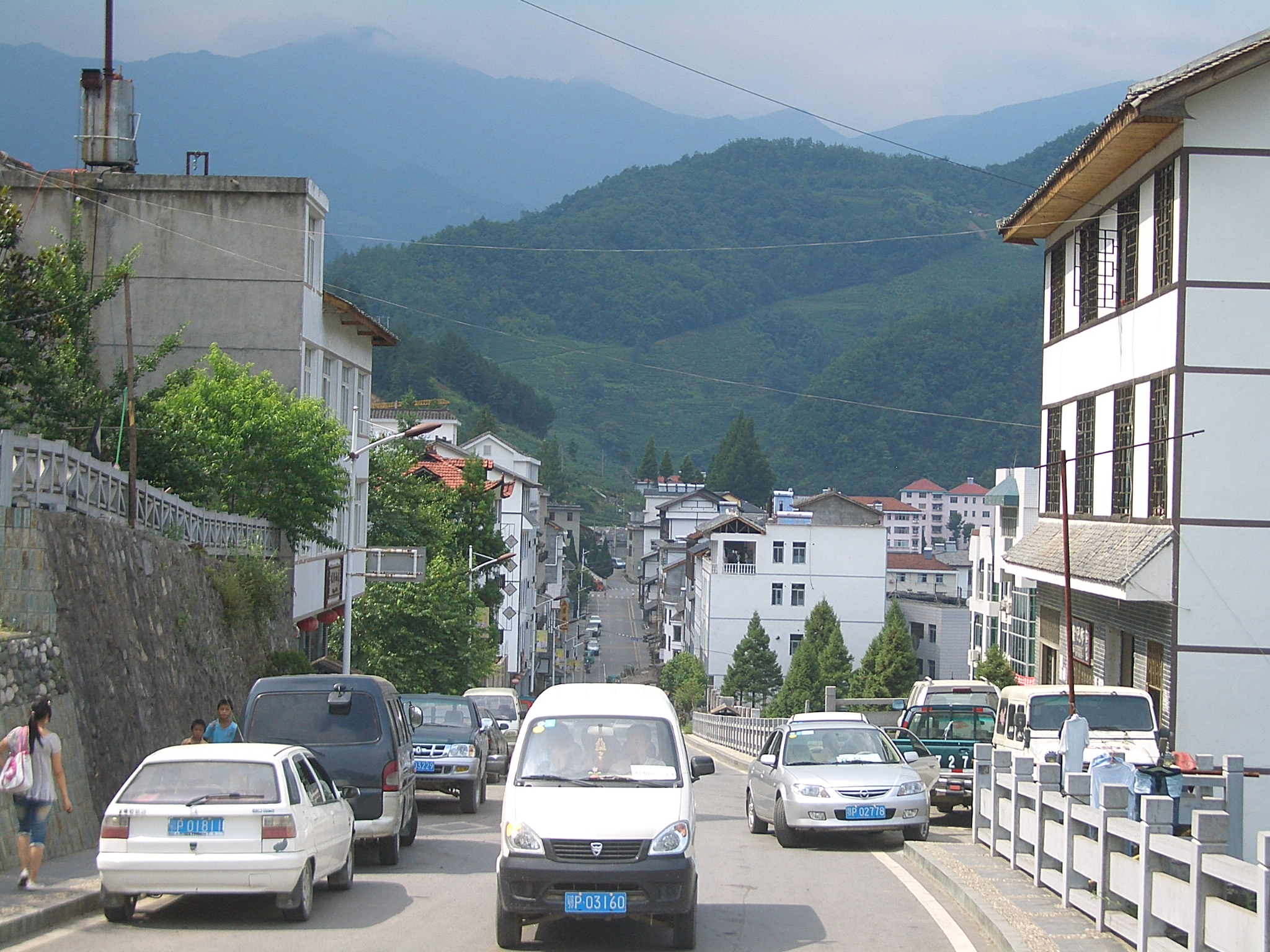 Muyu Town's main street, where most of the businesses are